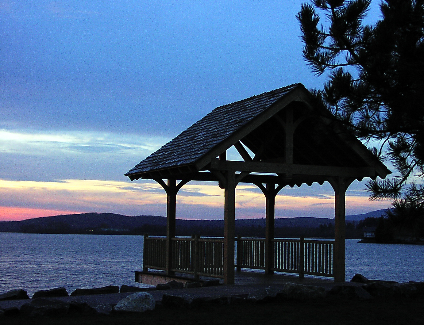 Dan Carmichael Tupper Lake